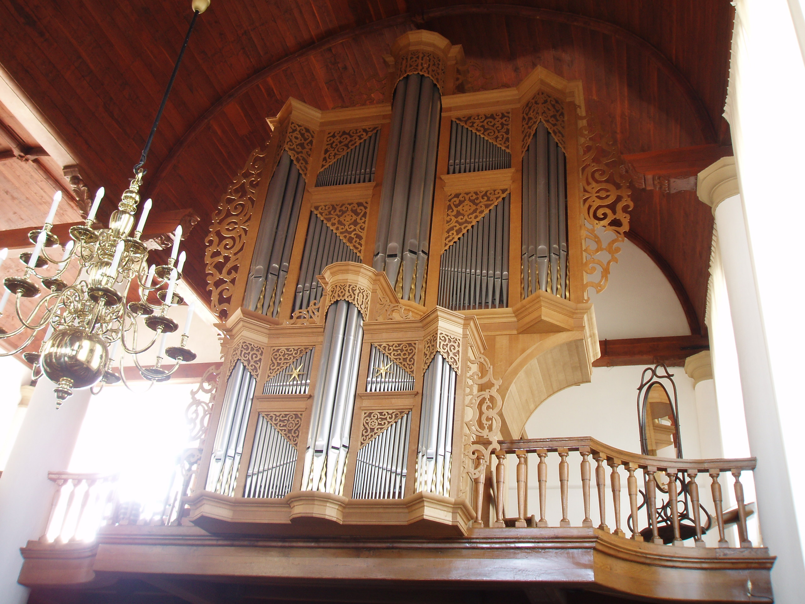 Organ in protestant Church Joure, The Netherlands